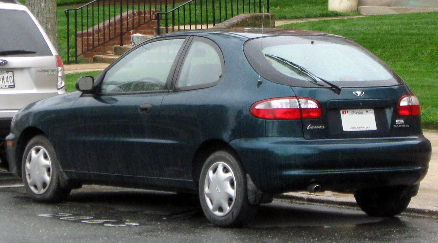 Daewoo Lanos photographed in College Park, Maryland, USA.